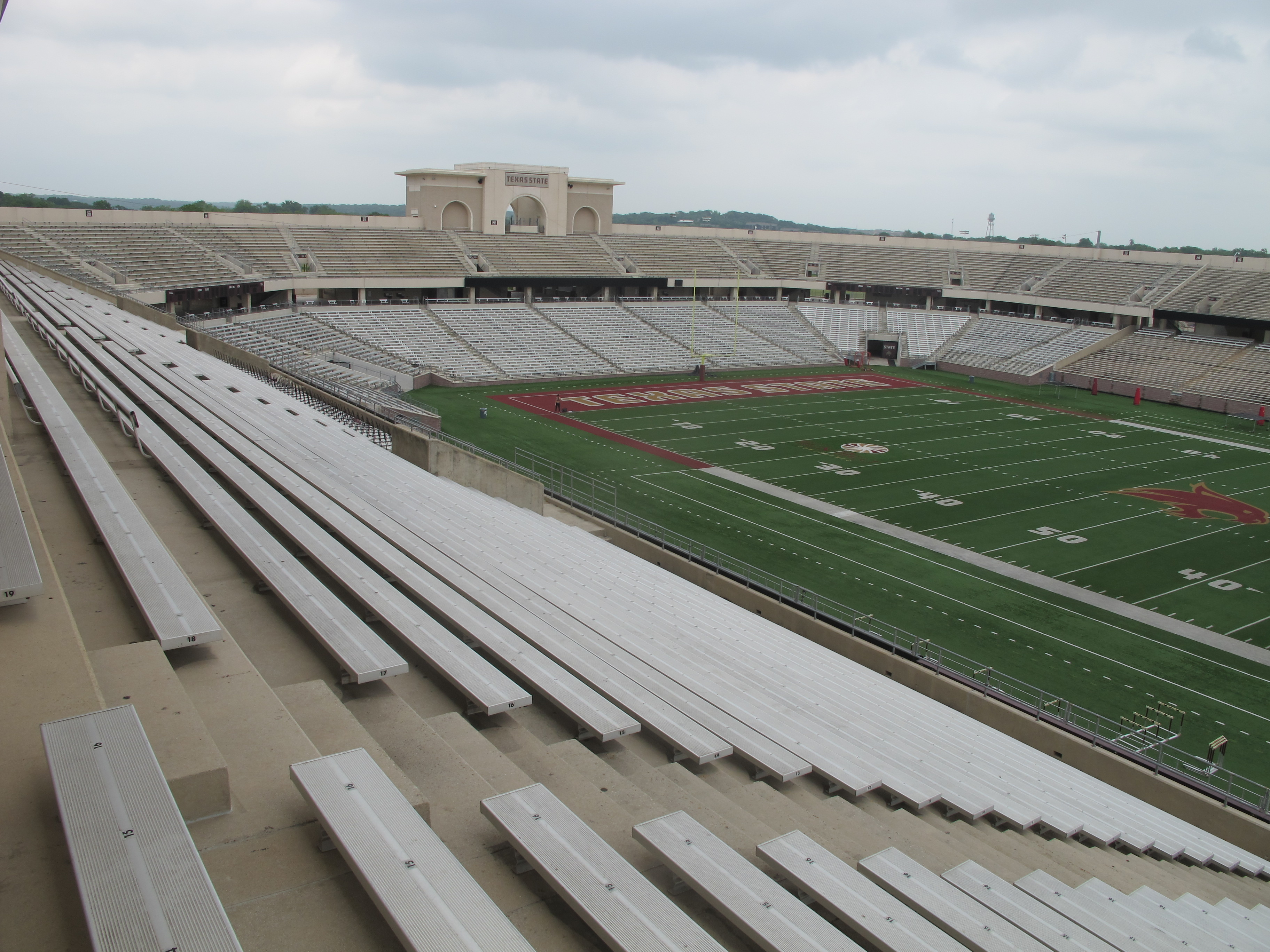 Wide View of Bobcat Stadium